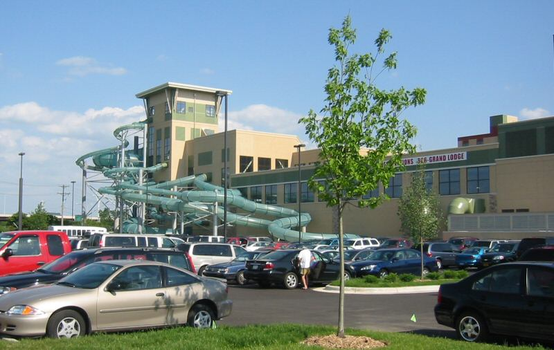 Water Park of America in Bloomington, Minnesota. The green tubes leading out of the building are water slides for individual sliders as well as riders of innertubes.